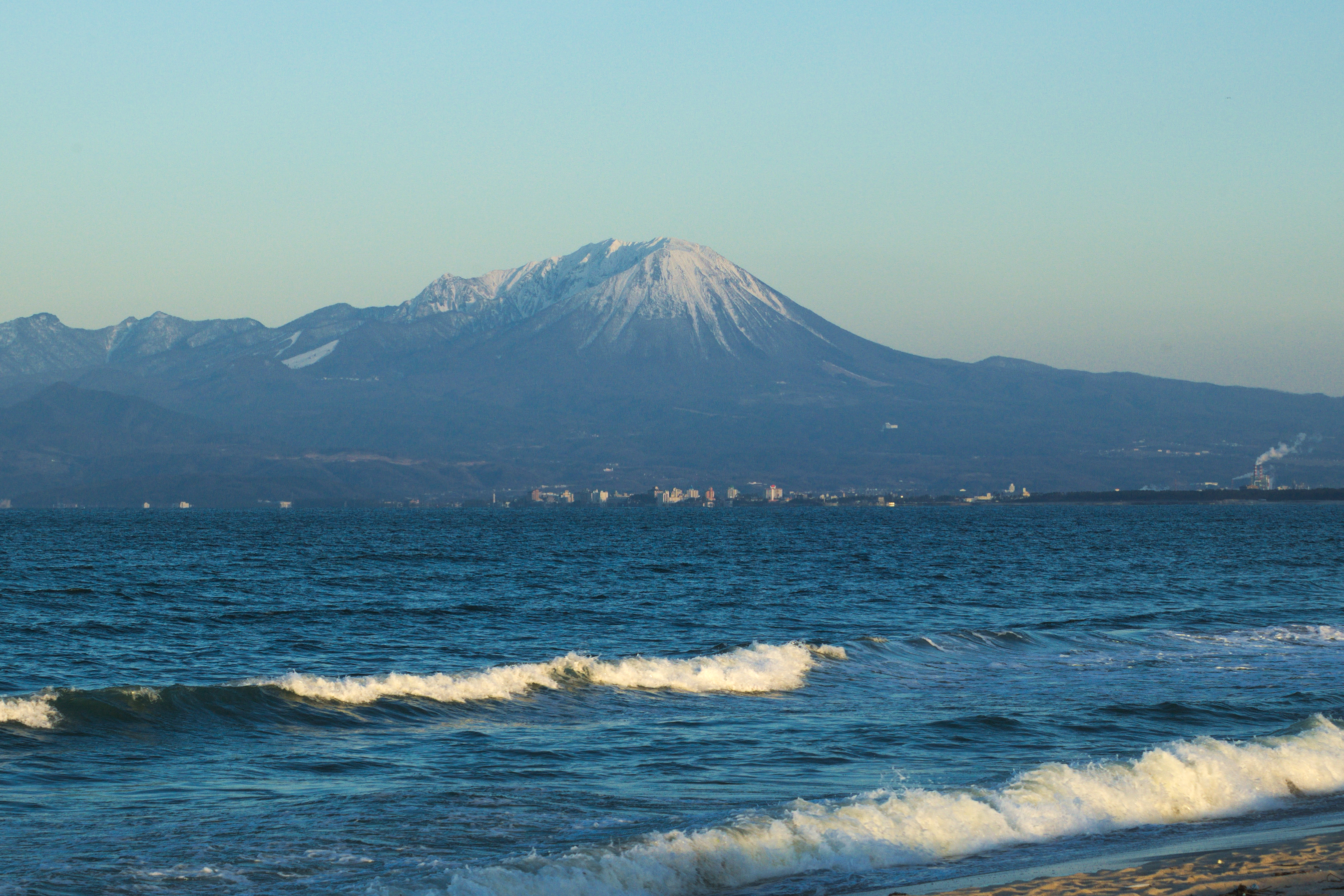 Daisen volcano as seen from the WNW.